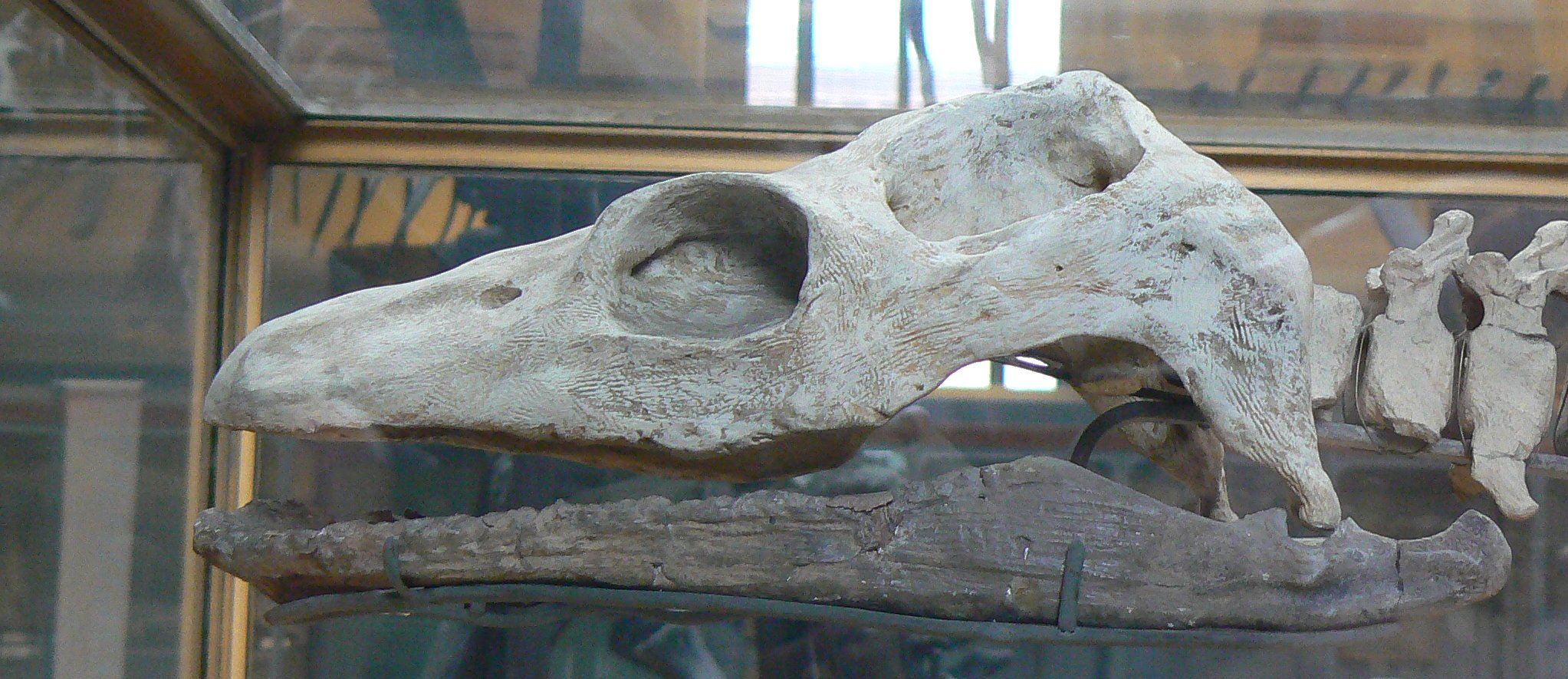 LadyofHats took the foto on the "Muséum national d'Histoire naturelle, Paris"